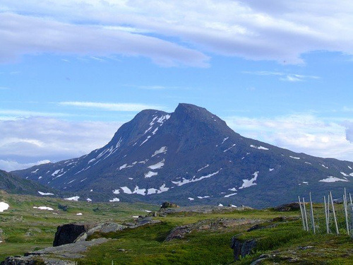 Summit of Solvågtind